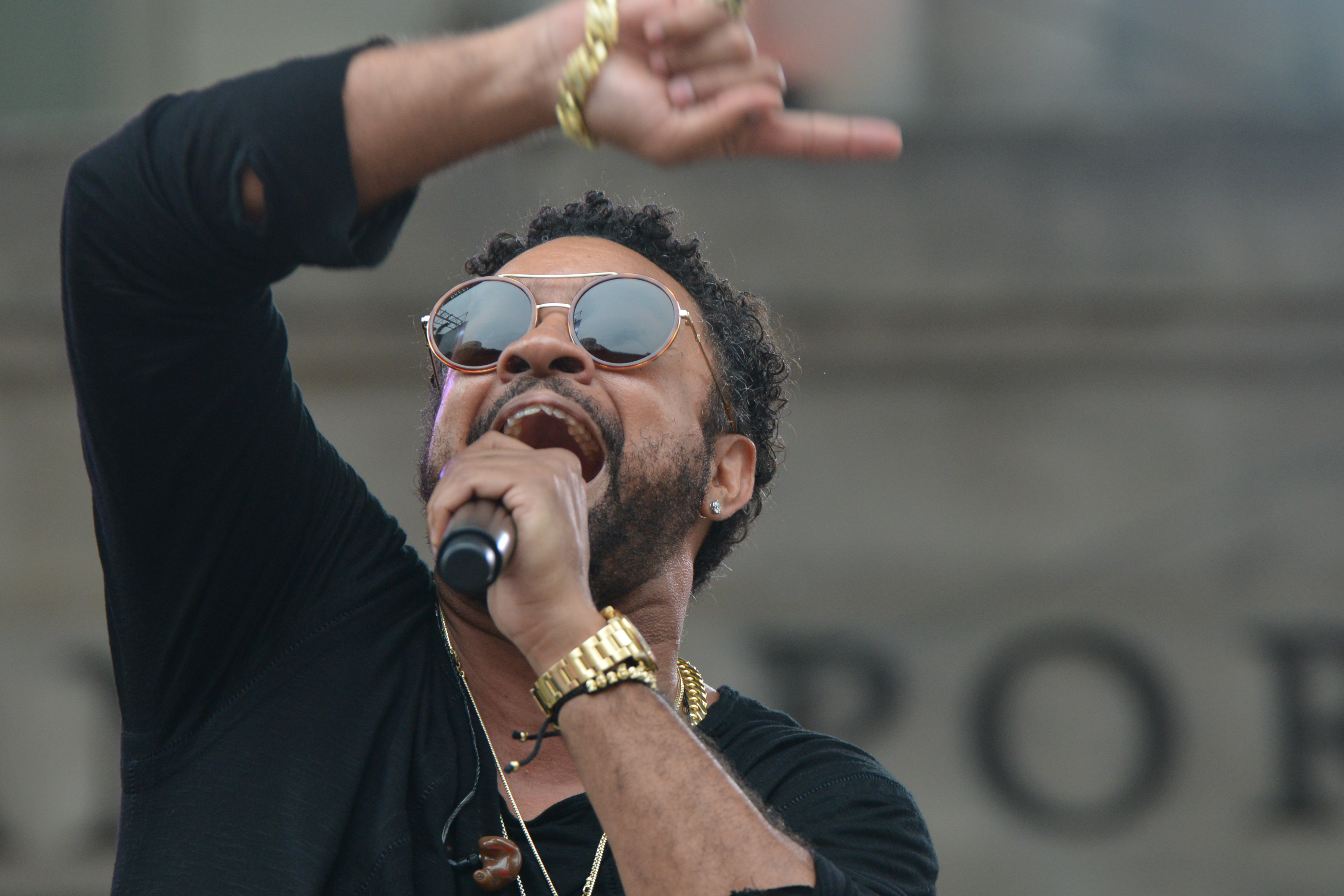 Capitals All Caps playoff Concert 2018